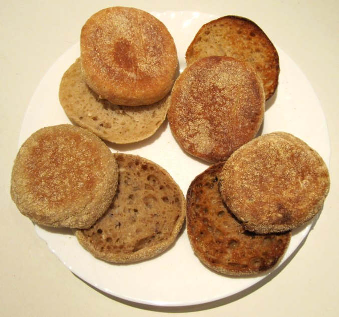 English Muffins, both wheat and rye, toasted and untoasted.